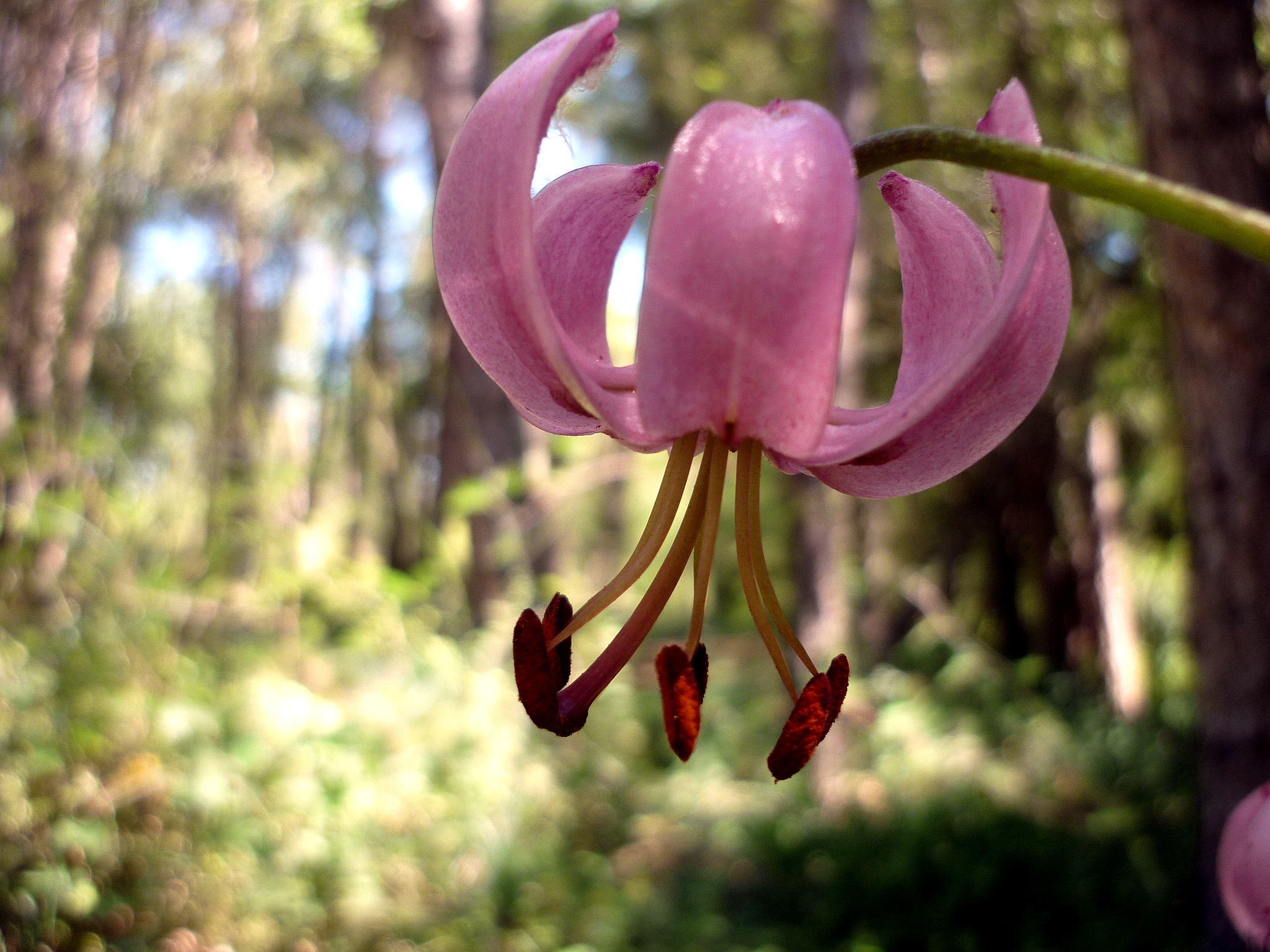 (Lilium martagon). In Torà (Segarra - Catalunya). To 585 m. altitude